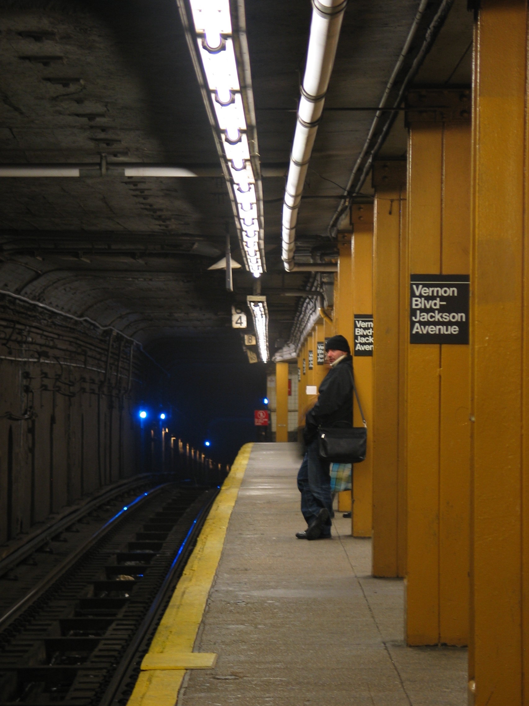 Vernon Boulevard / Jackson Avenue station looking east. In the background the tracks descent to Steinway Tunnel below the East River.